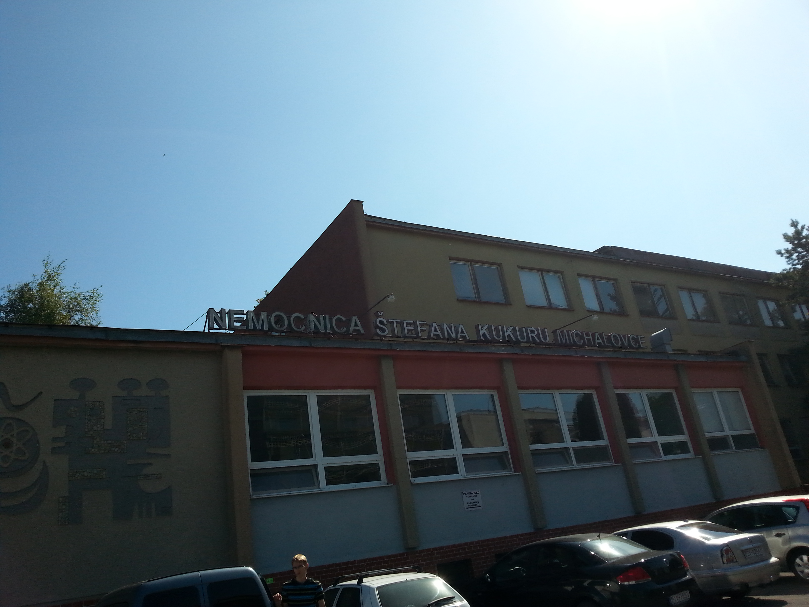 picture of the Stefan Kukura Hospital front building